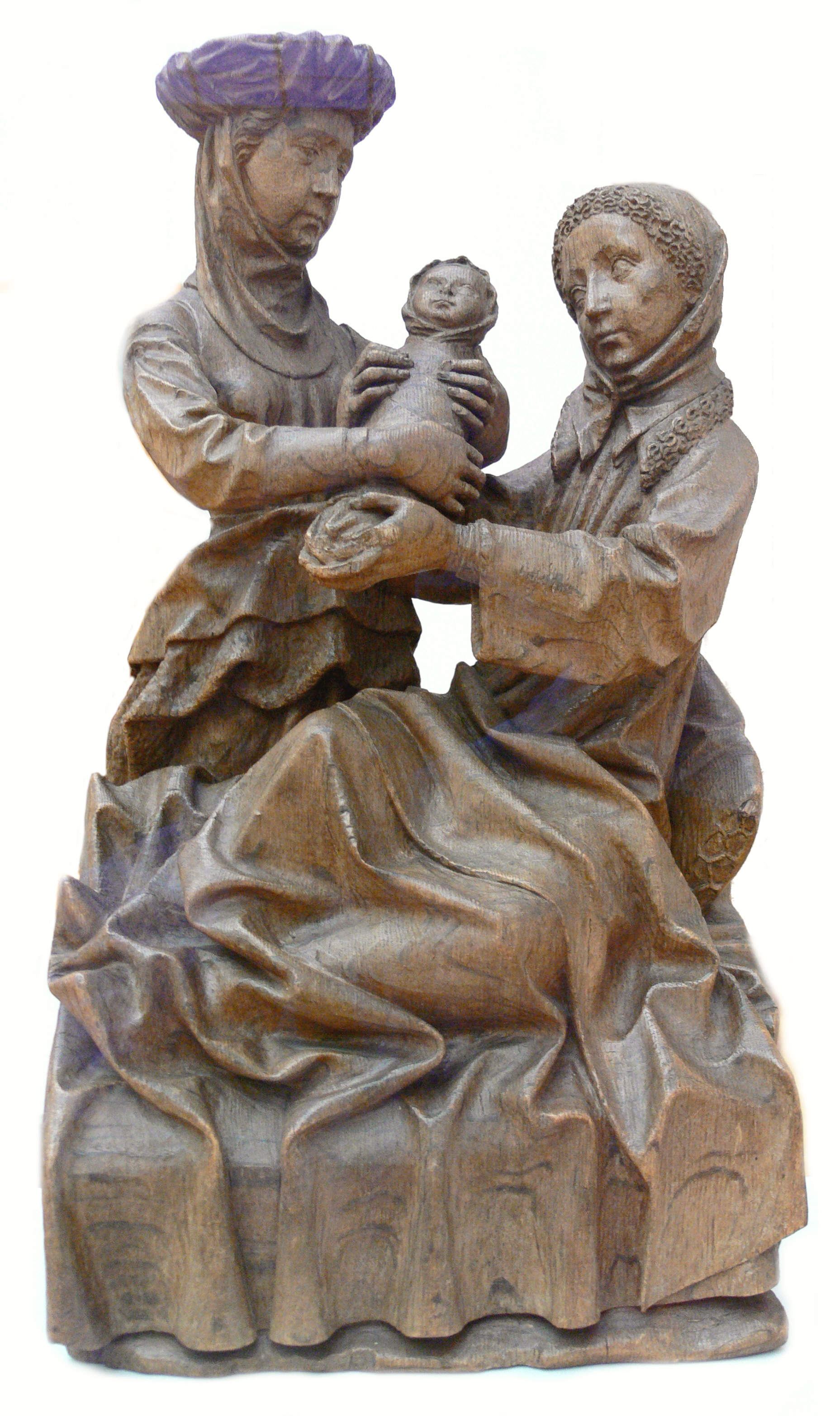 Master of Joachim and Anne: Birth of the Virgin, c. 1450, oakwood. Skulpturensammlung (Inv. no. 8333, acquired in 1924), Bode-Museum Berlin.